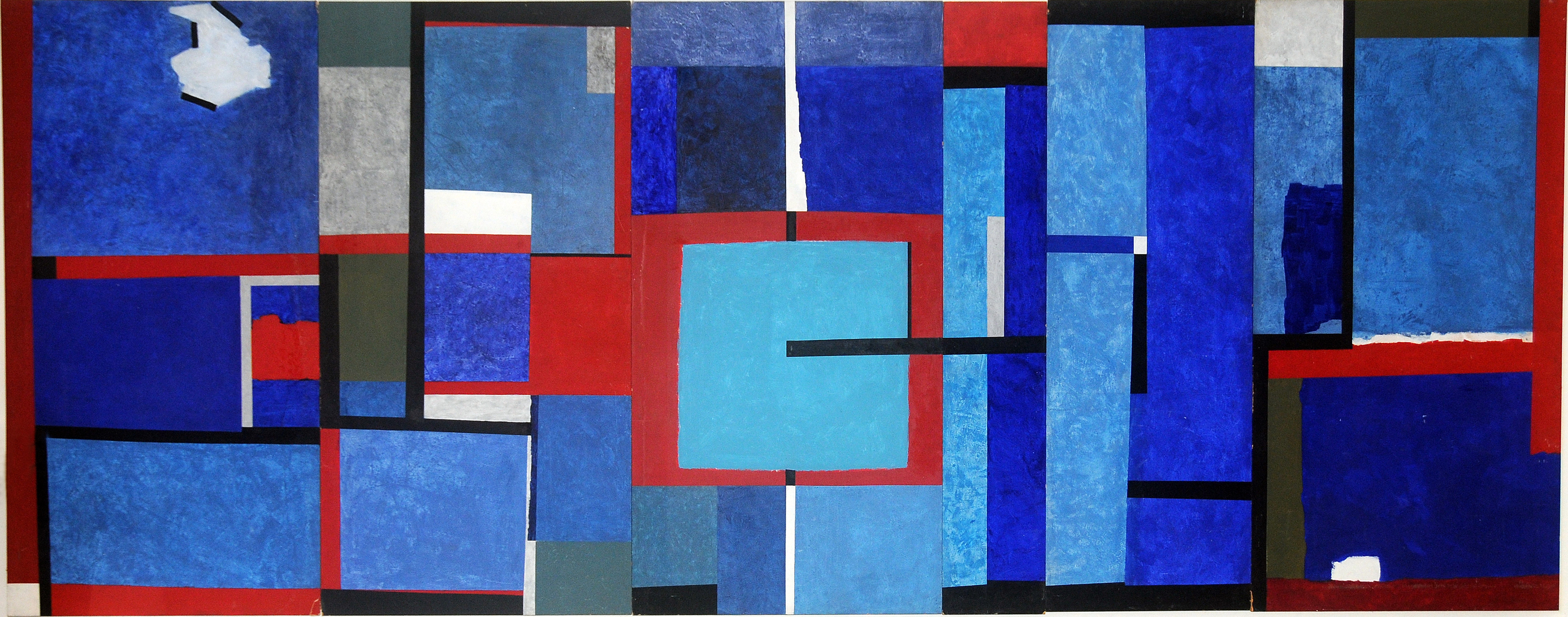 ... by the Norwegian painter Lars Tiller (more info to come).